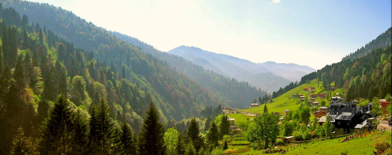 The photo was taken by a friend of mine, Sevtap On.